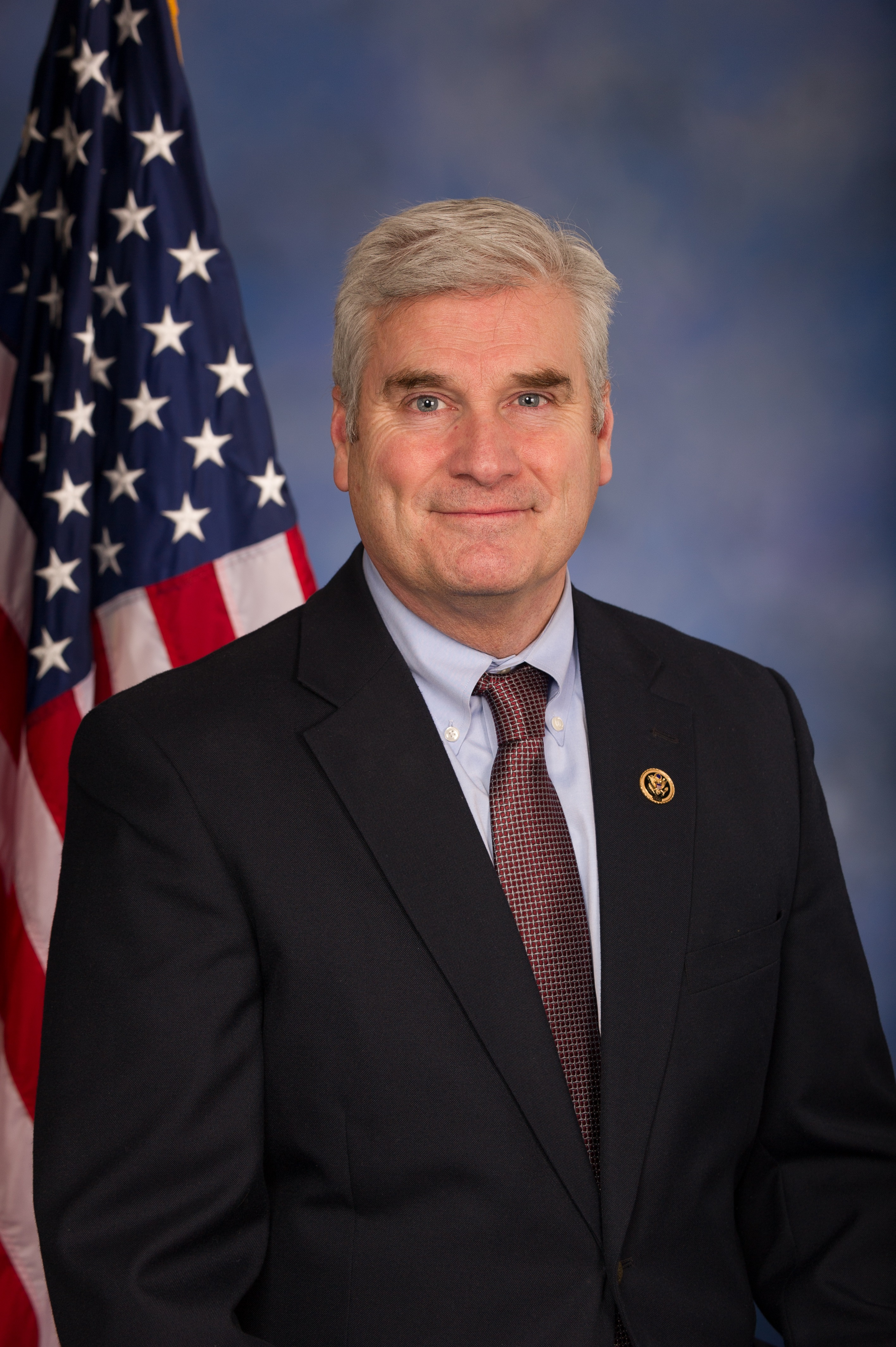 Tom Emmer